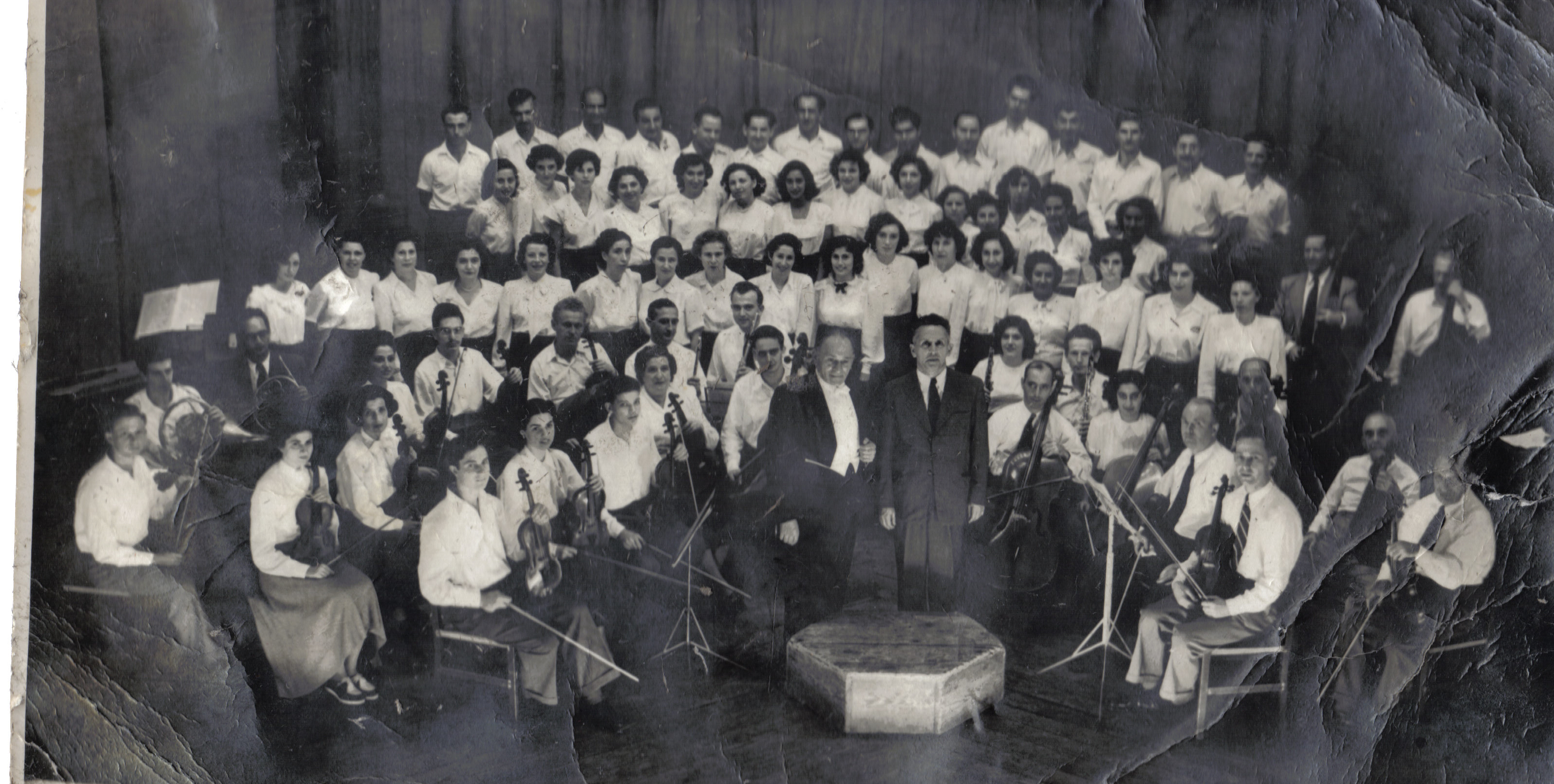 Art of Israel